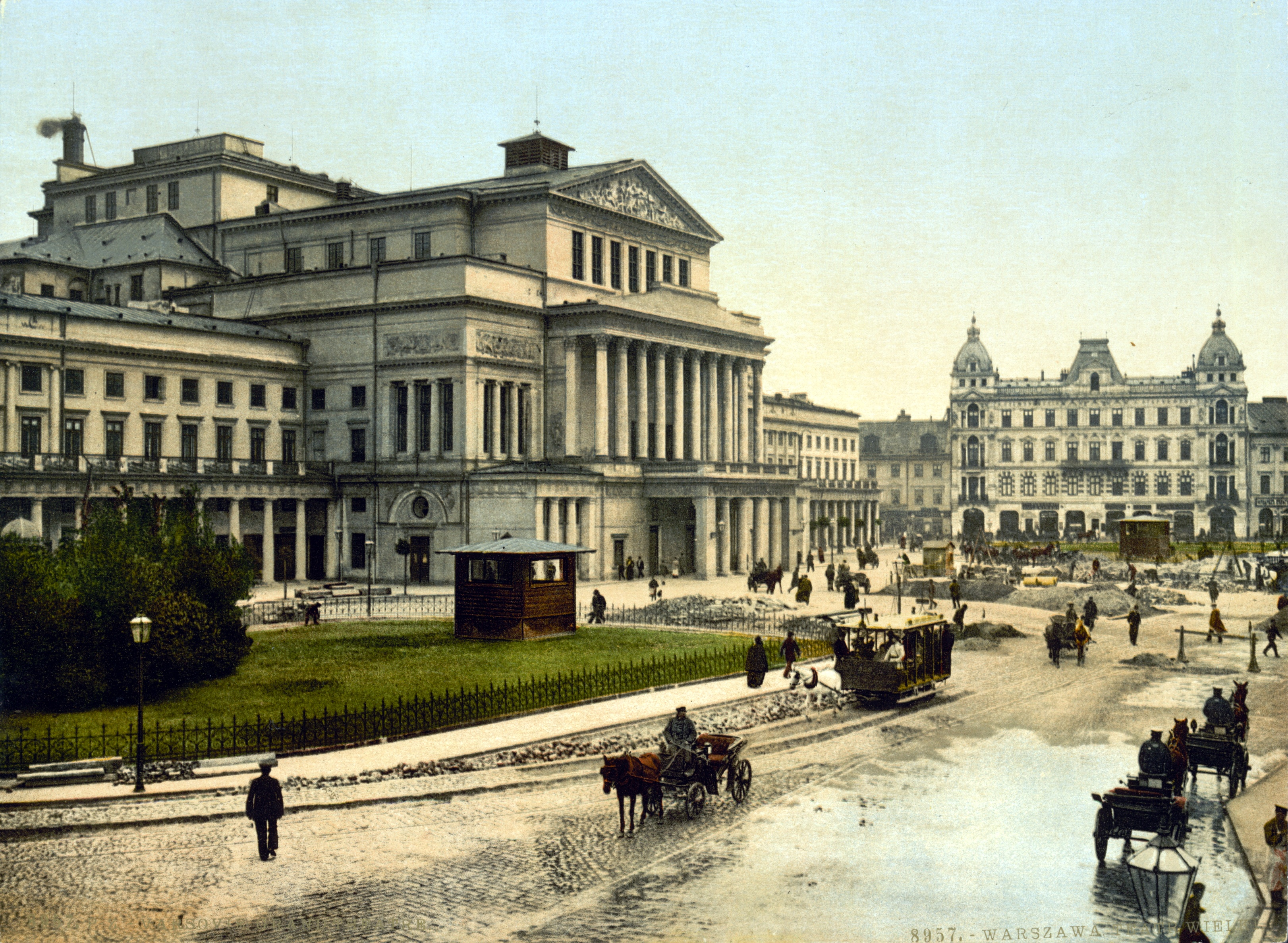 Theatre Square Warsaw about 1900